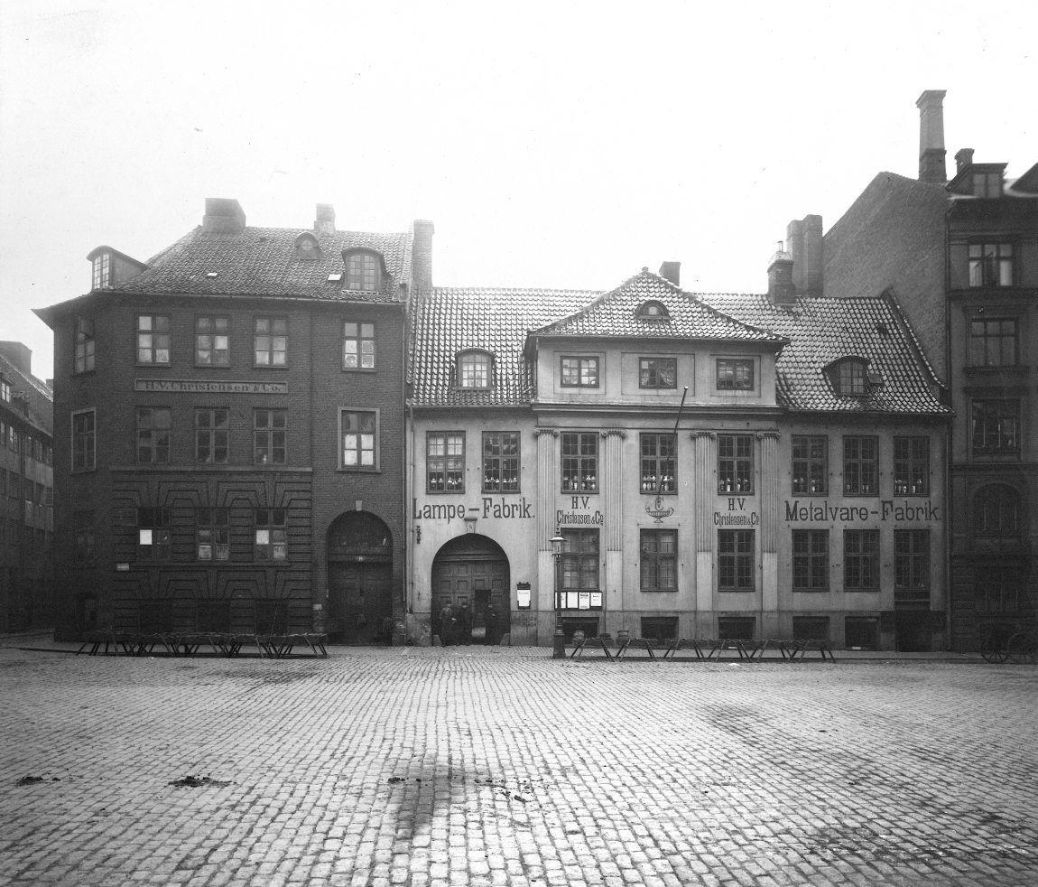 Vandkunsten No. 8 and No. 10 (corner) in Copenhagen. Denmark